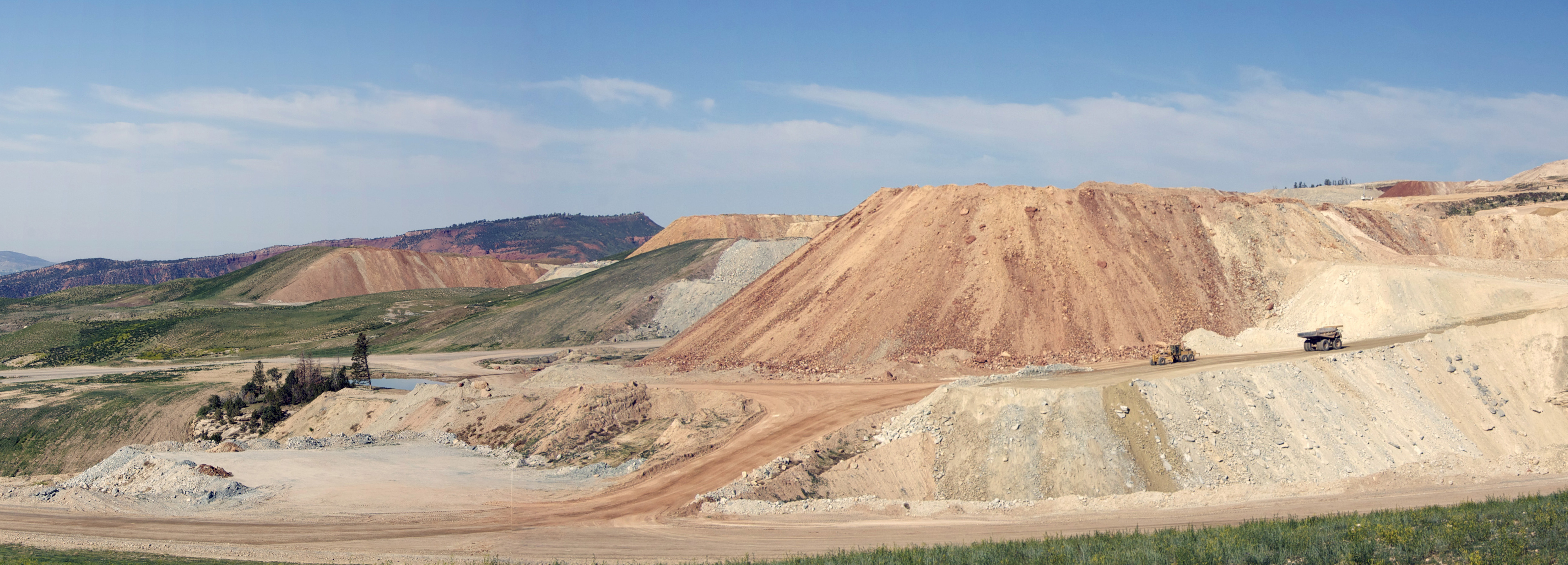 Phosphate Mine Panorama, Taken near Flaming Gorge NRA, UT.